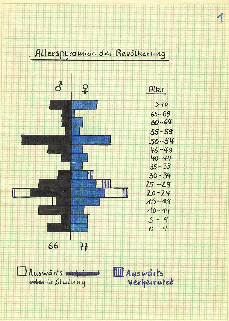 pyramide of age 1950 Borler, Germany